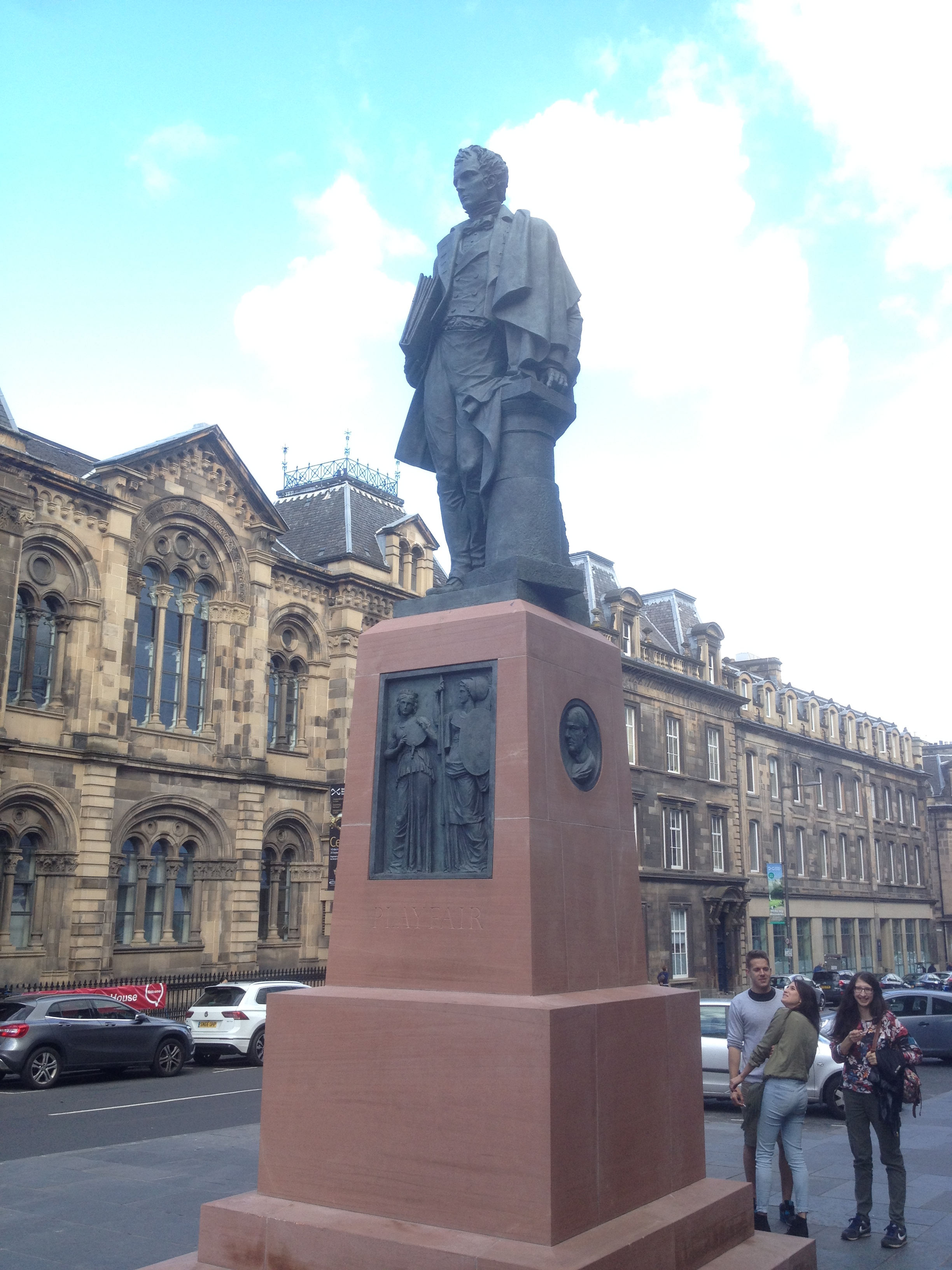 Statue of William Henry Playfair outside the Scottish National Museum, Chambers Street, Edinburgh in 2016